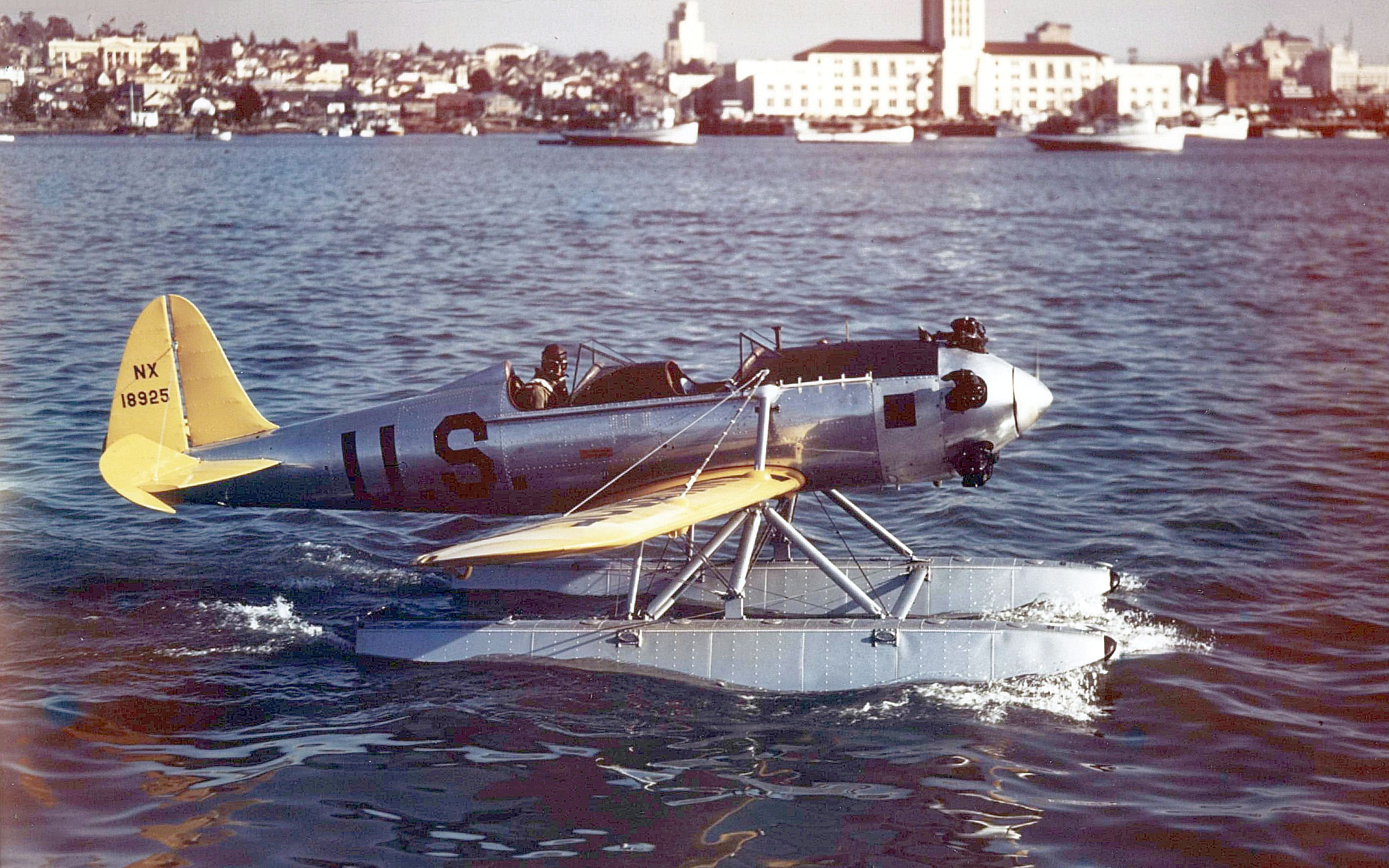 A Ryan ST-3 in San Diego Bay, circa 1940. Repository: San Diego Air and Space Museum Archive